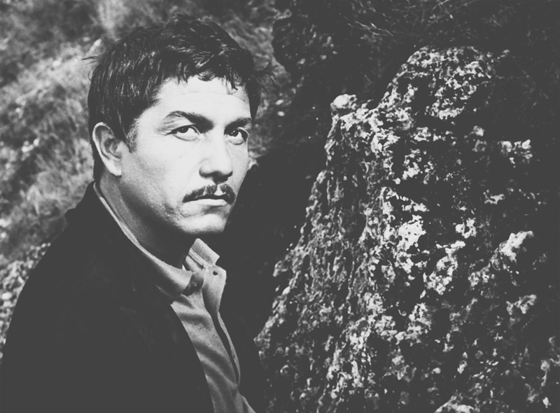 During shootings of a film "Steepness".